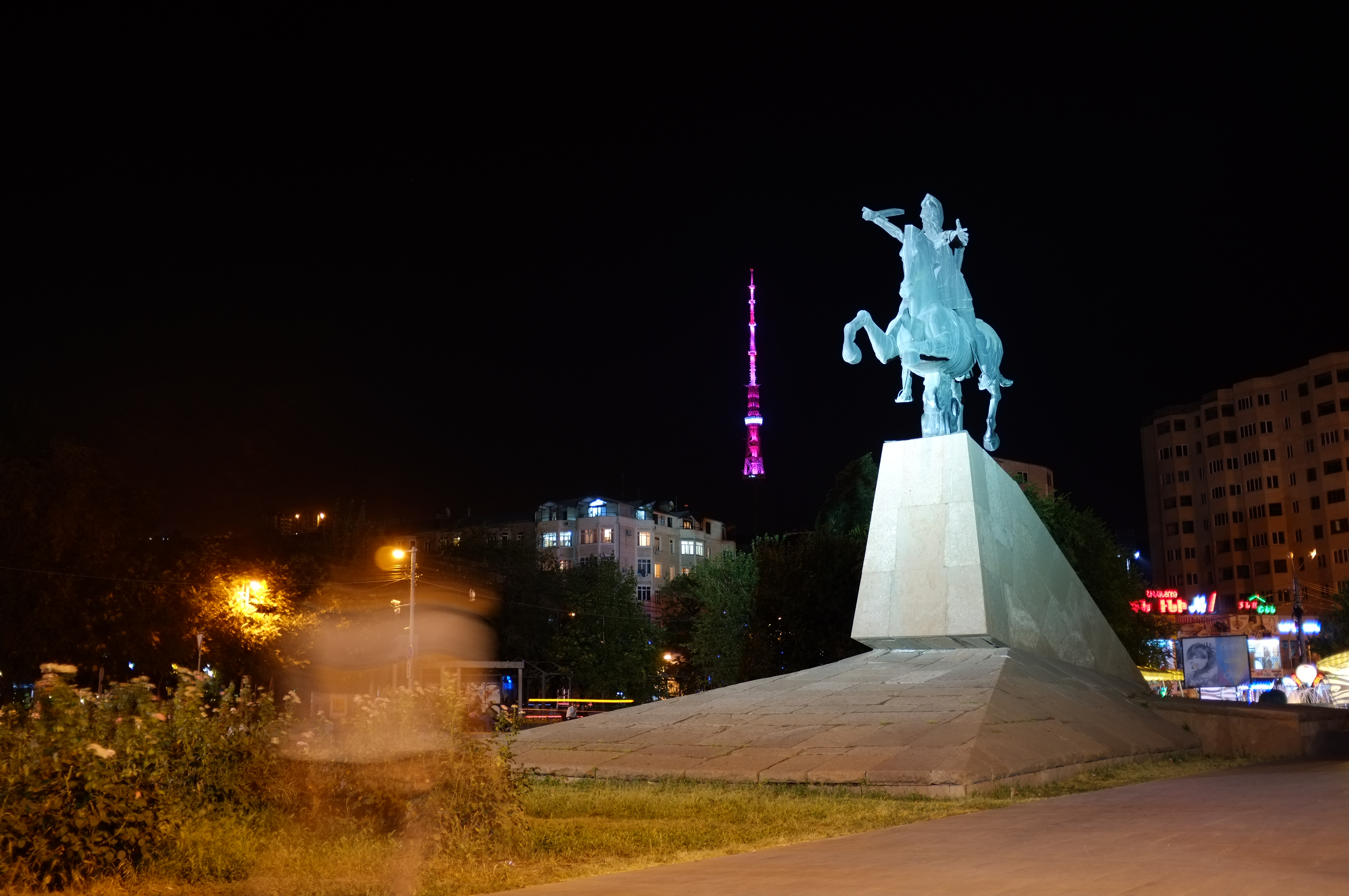 Vardan Mamikonian Statue in Yerevan, by Yervand Kochar, view from west,1975, copper 6/129